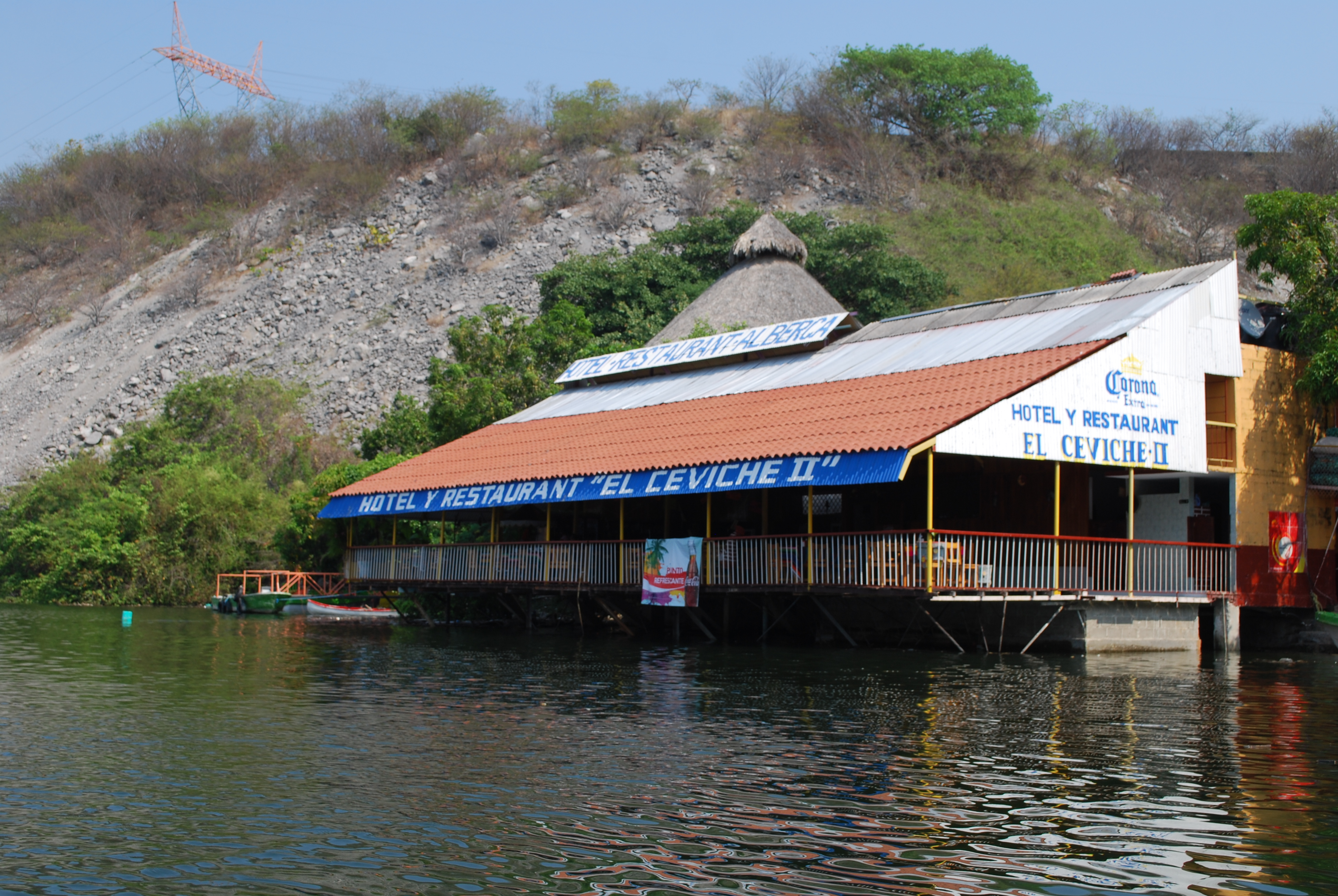 A hotel and restaurant on the Chicoasen Dam in Chiapas, Mexico